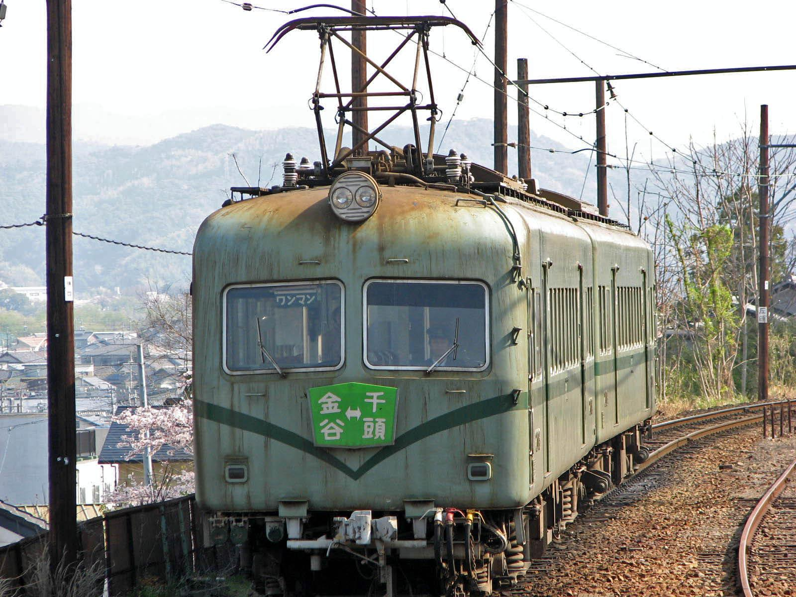 Ōigawa Railway type 421